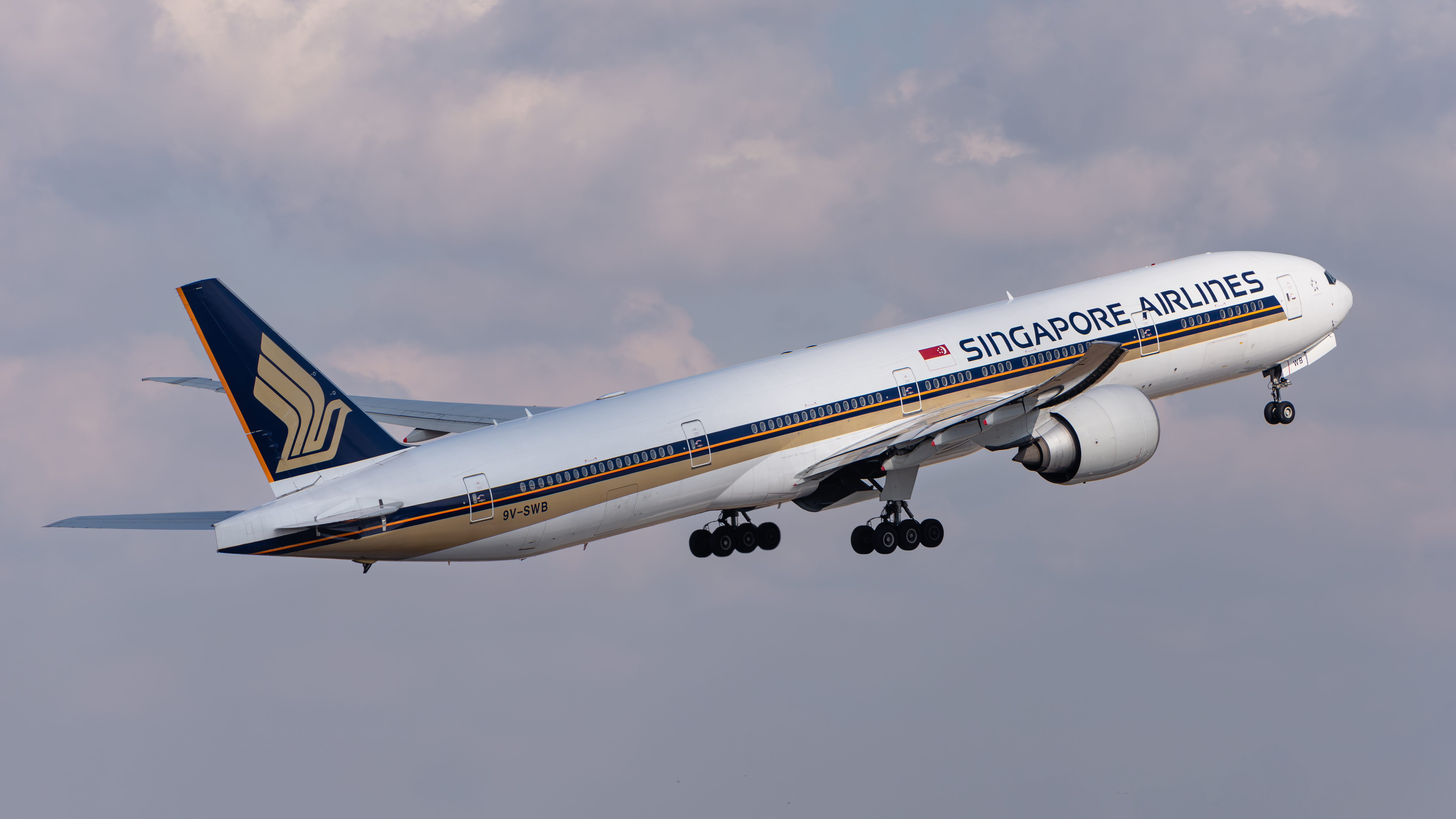 Singapore Airlines Boeing 777-312/ER (reg. 9V-SWB, msn 33377/592) at Munich Airport (IATA: MUC; ICAO: EDDM) departing 08R.